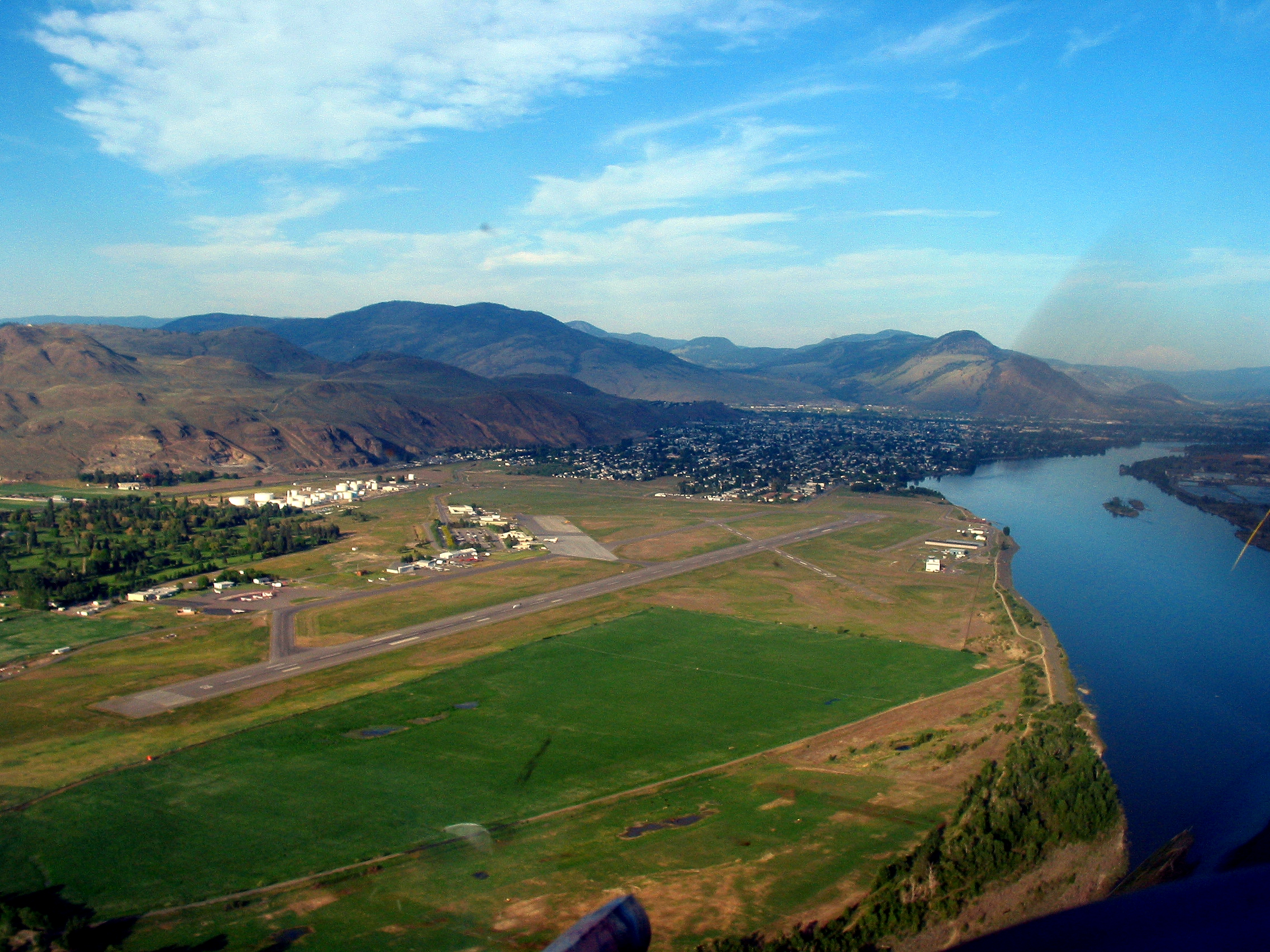 Normally a right hand downwind for runway 26 in Kamloops, radio requested I take it to the left hand downwind to avoid some parajumpers